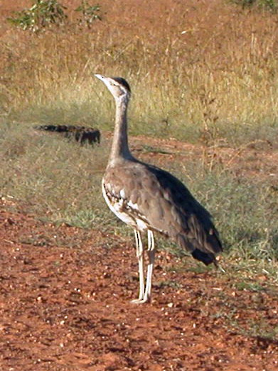 Australian Bustard, Ardeotis australis